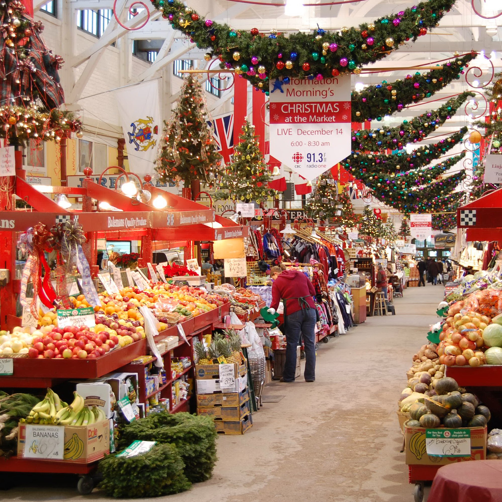 Self-made photo. Cropped.